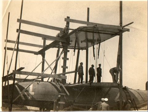 The US Navy flying boat NC-4 being dismantled for shipment back to the USA after the first transatlantic flight in May 1919